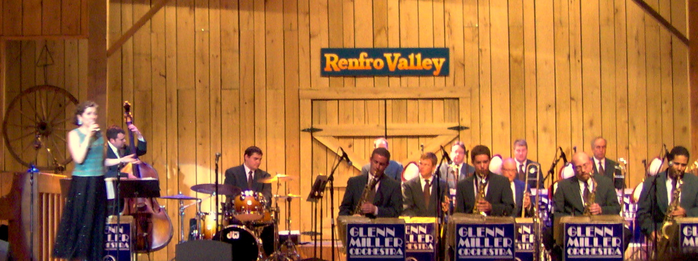 Glenn Miller Orchestra with Julia Rich (vocalist) performing at Renfro Valley, Kentucky.